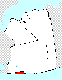 Created by myself using a map of the Census Bureau (work of Frederl government employee, no copyrights).